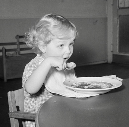 Young girl eating in kindergarten Tuborg Børnegård in 1954